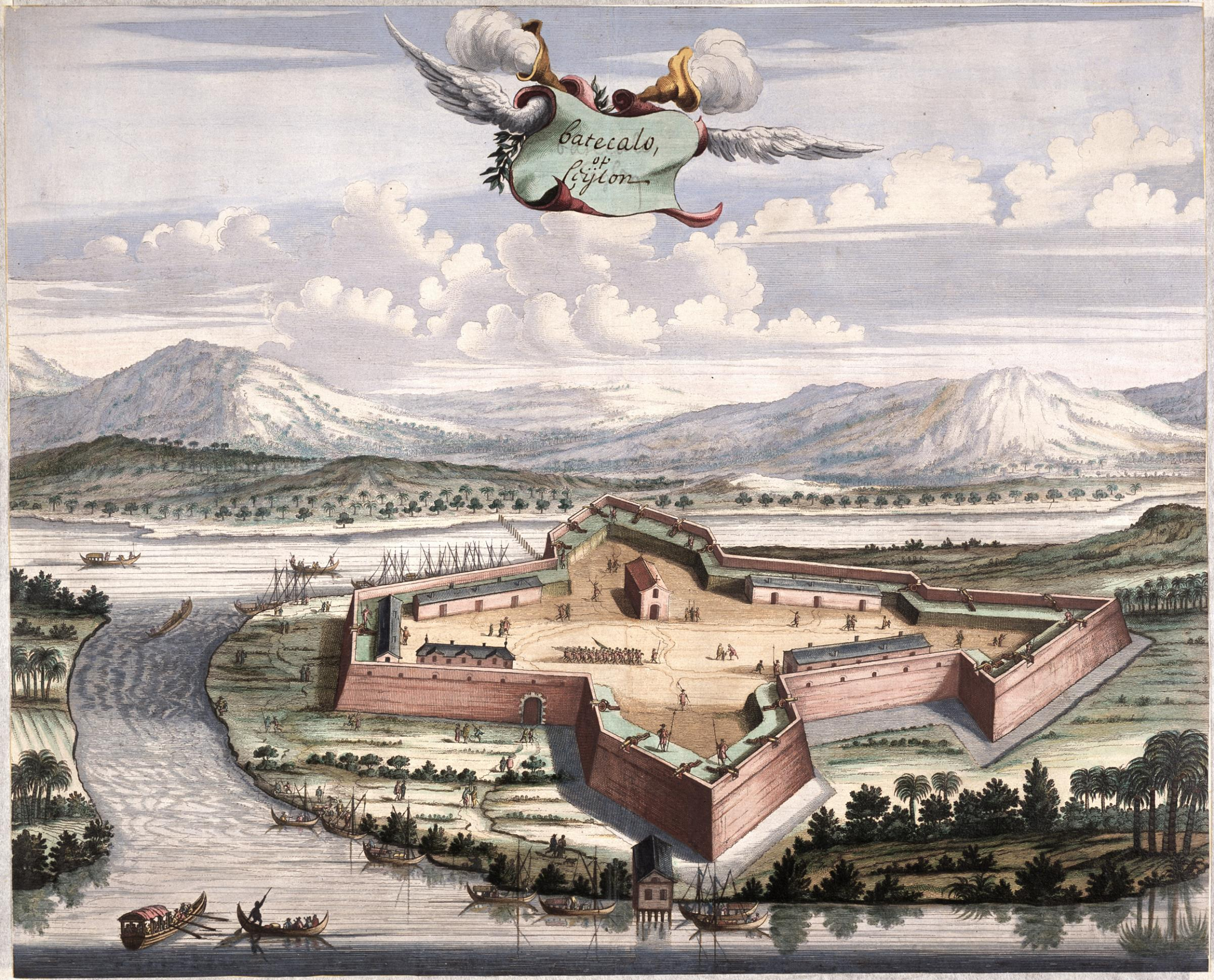 Title in the Leupe catalogue (NA): Afbeelding van het fort te 'Batecalo op Ceijlon. View of the fort with mountains in the background. The fort is surrounded by a moat and lies in a river estuary. Note in the Leupe catalogue: Deze zelfde koperdruk komt ook voor bij Baldaeus, blz. 54. Cf. Koninklijke Bibliotheek 189 A 6 part II, after p. 54.